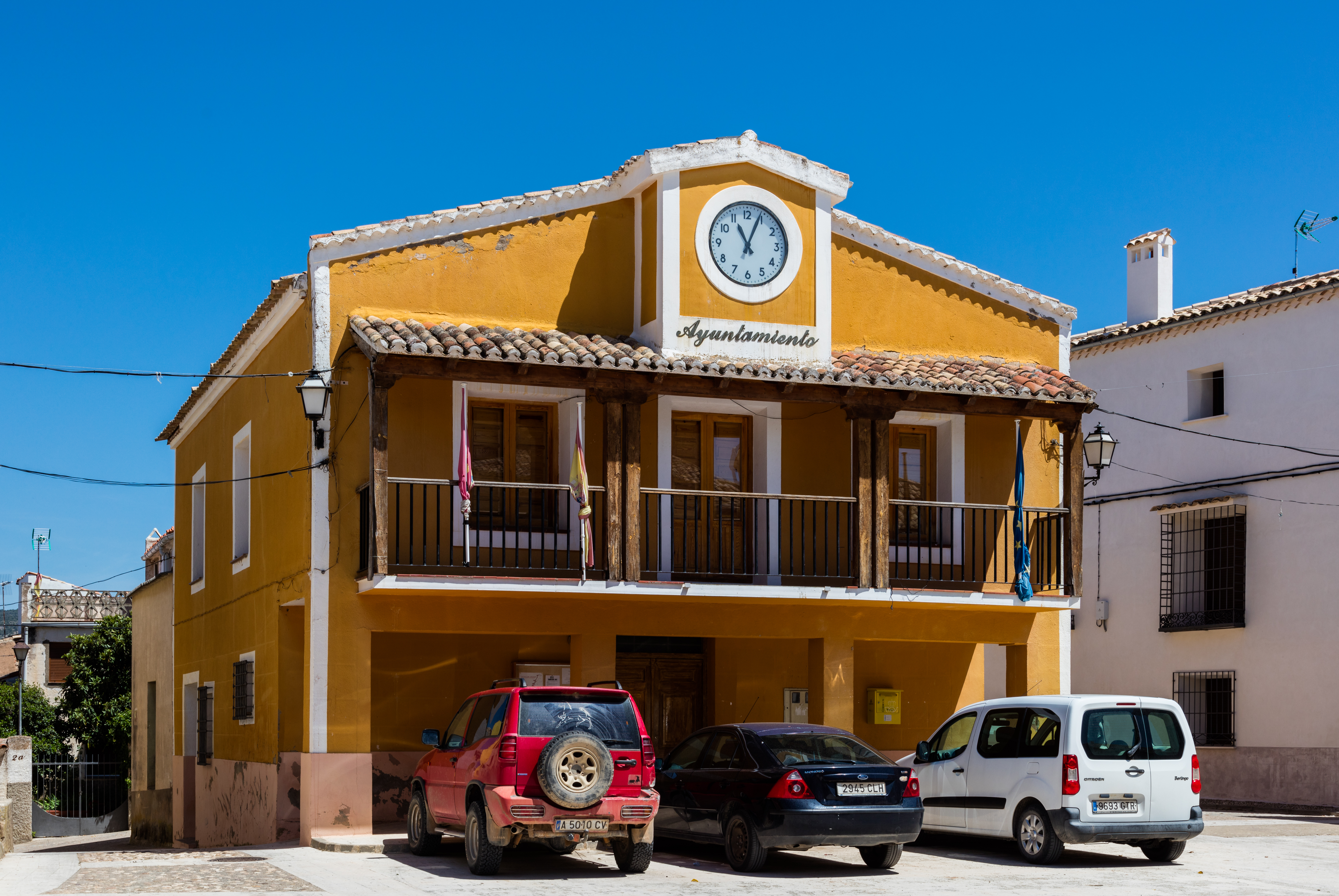 Town hall, Albalate de las Nogueras, Cuenca, Spain